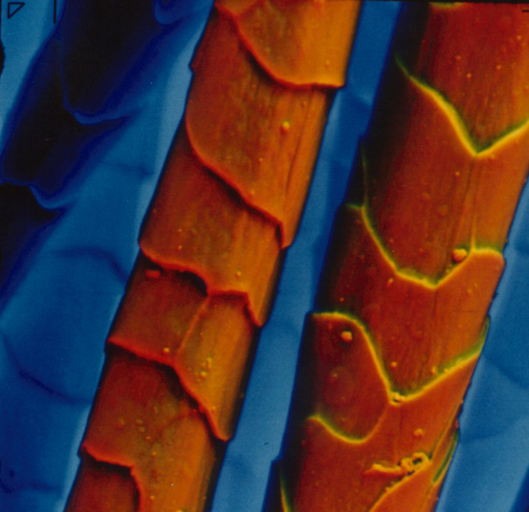 Wool fibers imaged in an ESEM by the use of two (A and B) symmetrical plastic scintillating backscattered electron detectors: Color was obtained by superimposing three images, namely, A+B, A-B and B-A through red, green and blue filters, resulting in sharp topographic contrast with illumination from the two detector directions. Field width=200 microns, 10 kV, 50 pA, 100 Pa pressure. Raw signals without post-processing to remove noise.